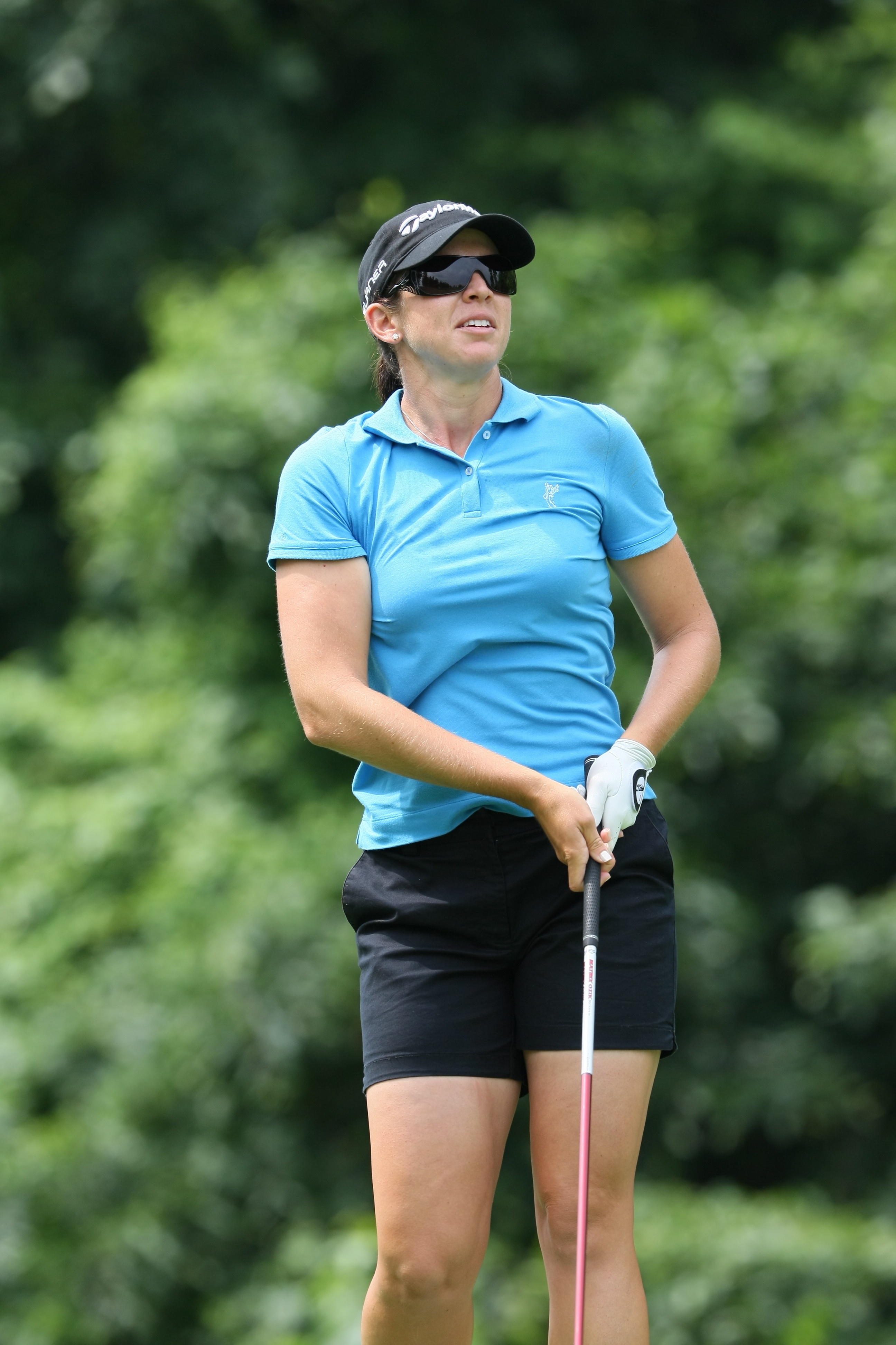 HAVRE DE GRACE, MD - JUNE 09: Nicole Castrale (USA) during Pro-Am before 2009 LPGA Championship held at Bulle Rock Golf Course, on June 9, 2009 in Havre de Grace, Maryland. (Photo by Keith Allison)